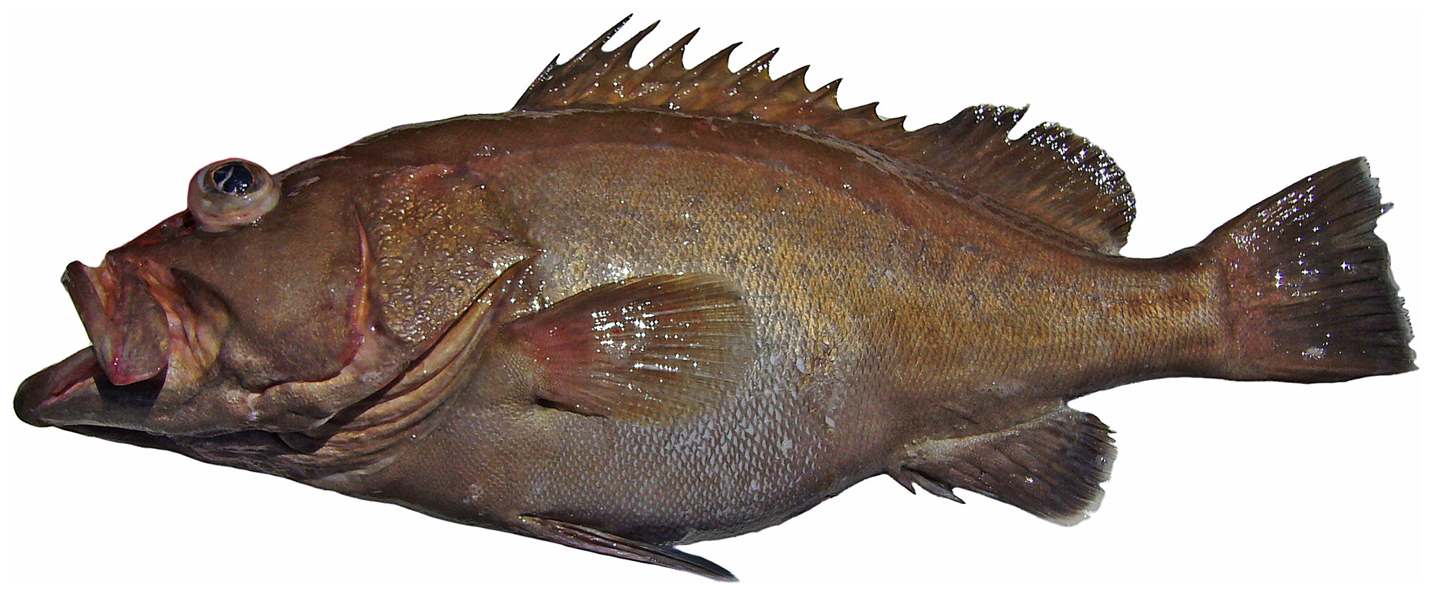 Epinephelus niveatus Valenciennes, 1828—snowy grouper, 526 mm SL. Photo by W Toller.